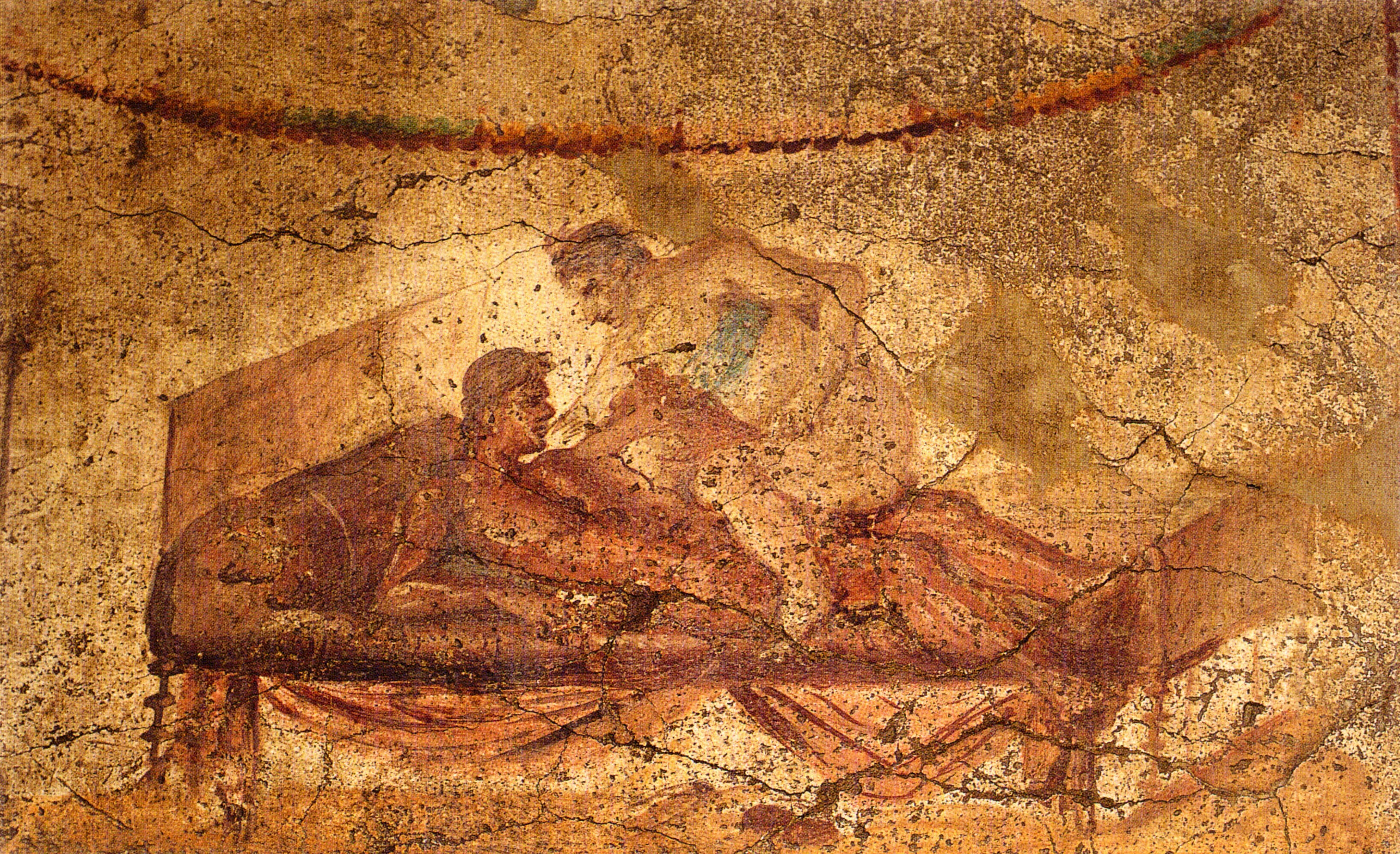 Couple in bed. Woman waering a fascia pectoralis sits a partners lap. Fresco from south wall, upper zone above entrance to room f in the Lupanar in Pompeii. Ca. 70-79 AD.